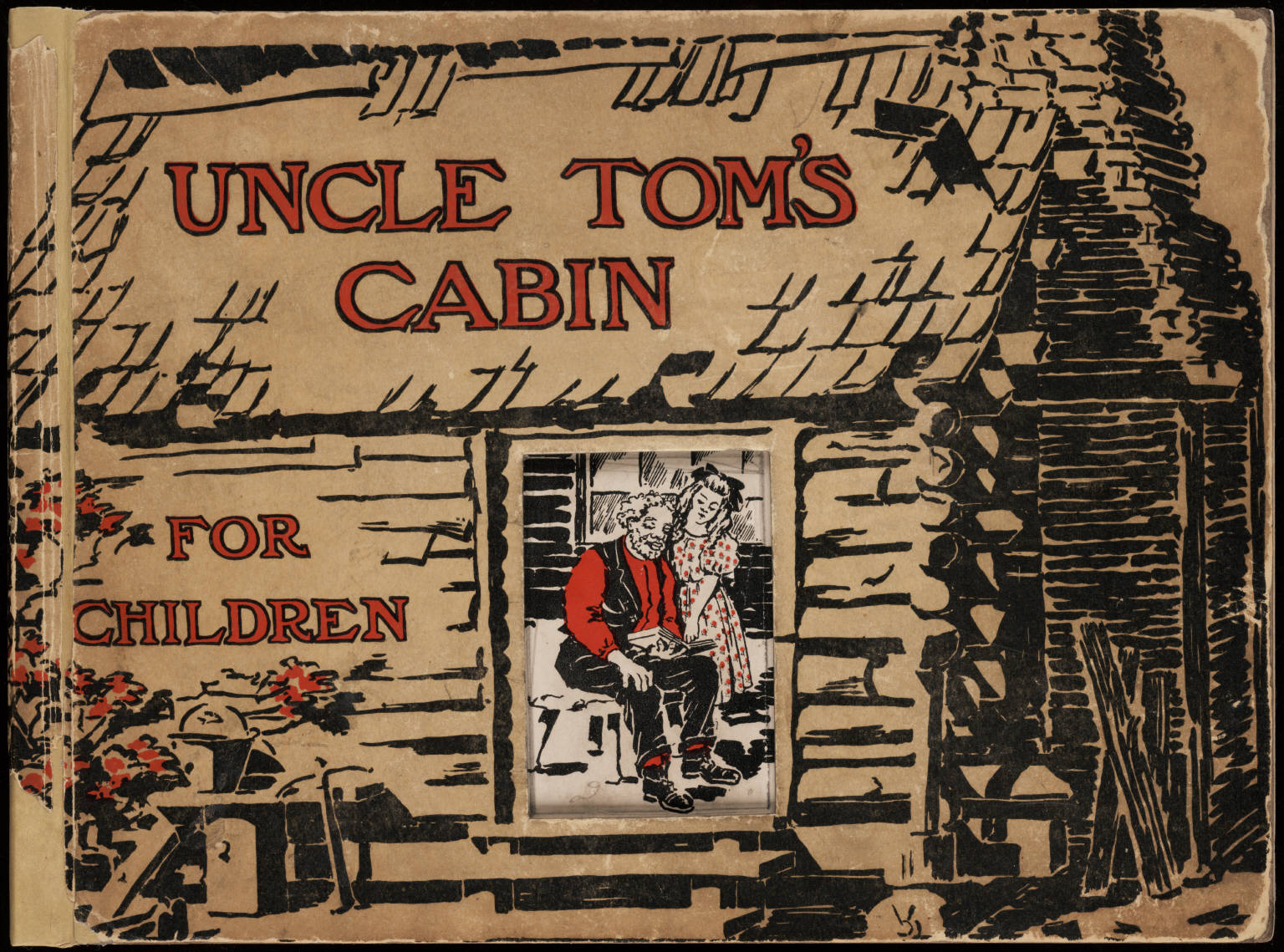 Uncle Tom's Cabin for Children, designed by W. M. Rhoads, adapted by Helen Ring Robinson, based on the original work by Harriet Beecher Stowe. Front cover, published at Philadelphia, Penn., circa 1908. Courtesy of the Yale Collection of American Literature, Beinecke Rare Book and Manuscript Library, Yale University, New Haven, Connecticut.